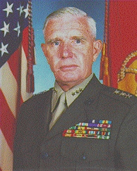 Lieutenant General George R. Christmas, USMC